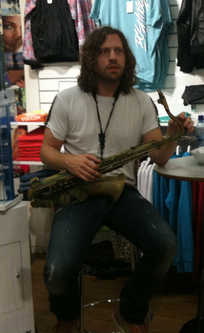 Kjetil Møster from Datarock, performing live at the Swag store at Nerstranda shopping mall in Tromsø, Norway